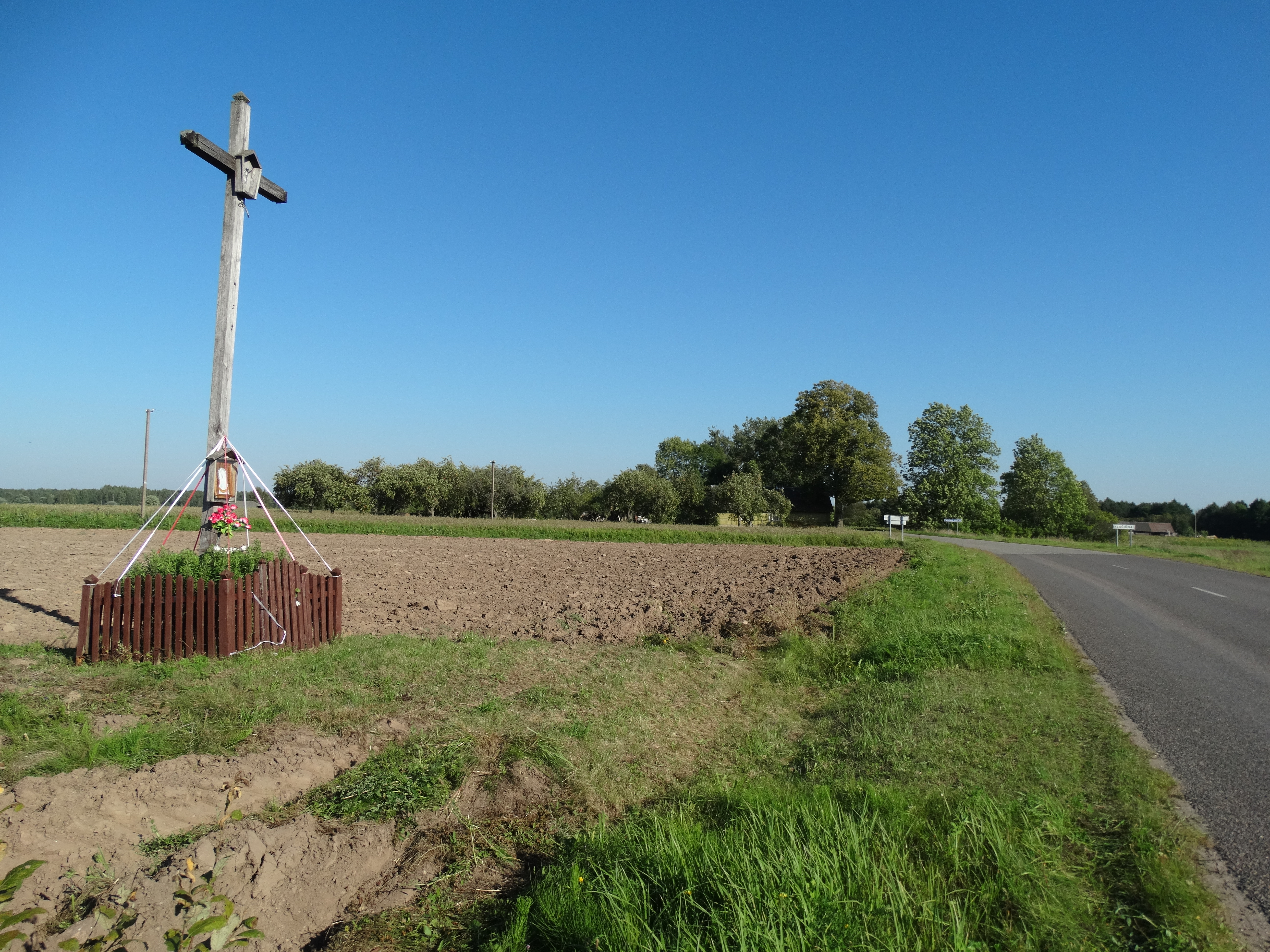 Kločiūnai, Švenčionys District, Lithuania